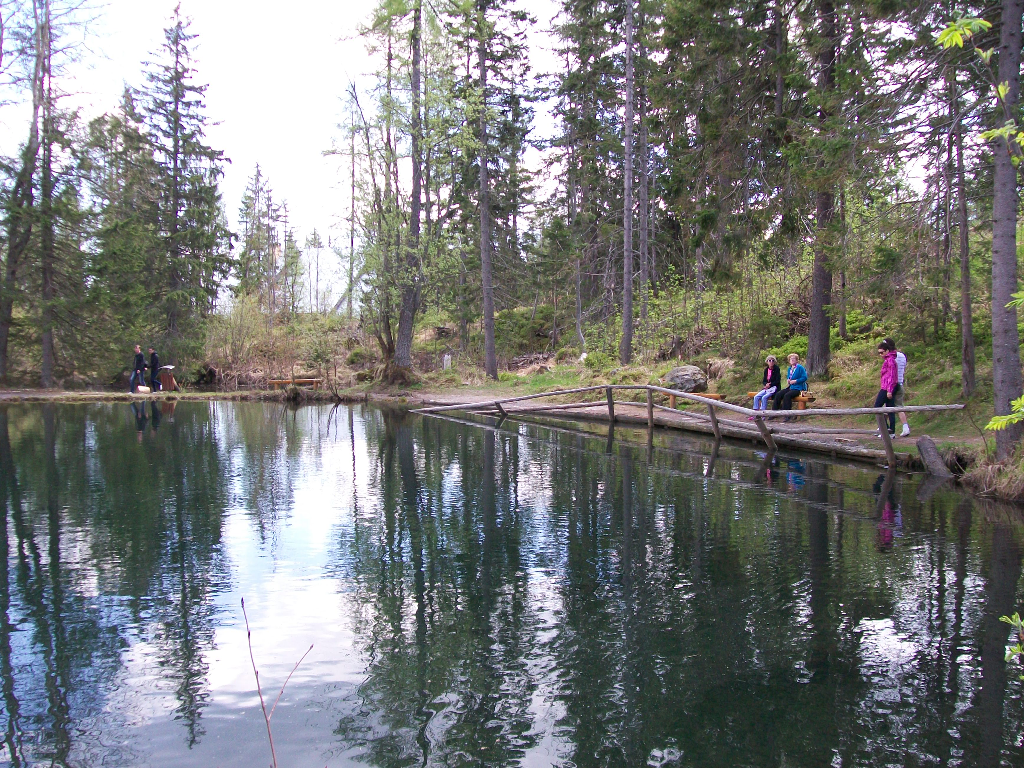 Lakes of love in Štrbské pleso